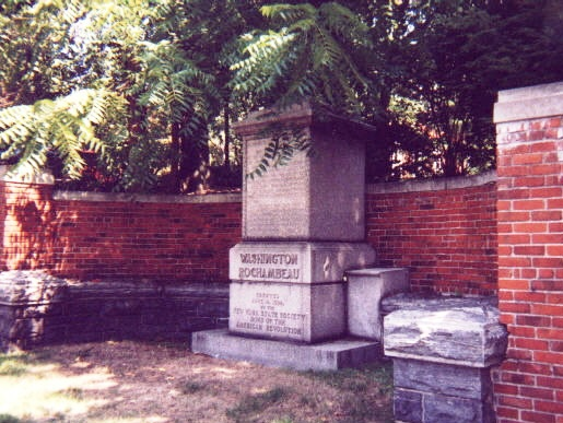 Washington-Rochambeau Monument of Dobbs Ferry, NY; Richard Gottlieb, 2002.